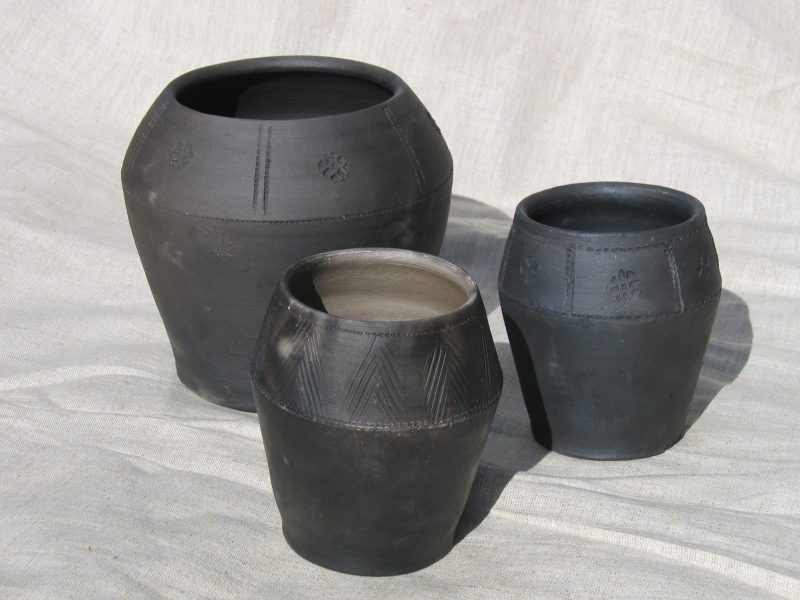 Terra nigra cups - Reproductions of slavic pottery of the 9th and 10th century.